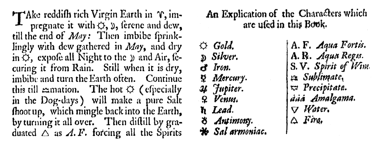 1280px-Alchemy-Digby-Rare